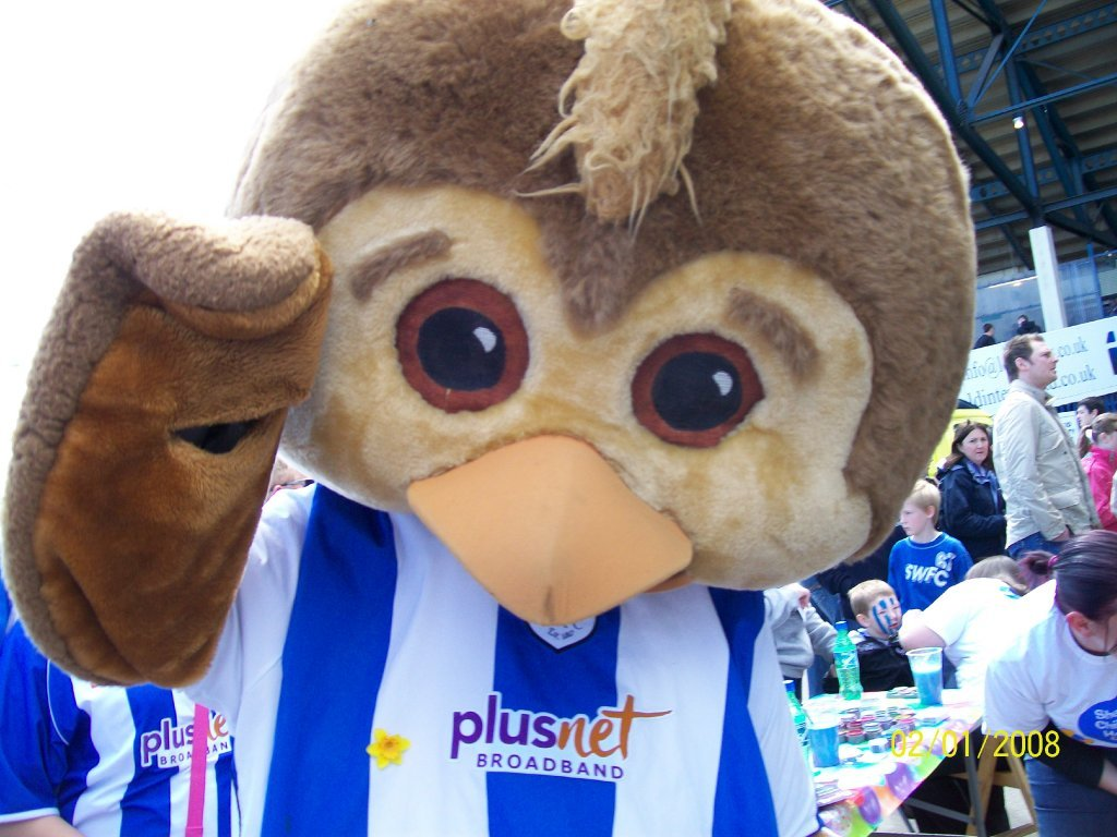 SWFC mascot Ozzie the Owl.